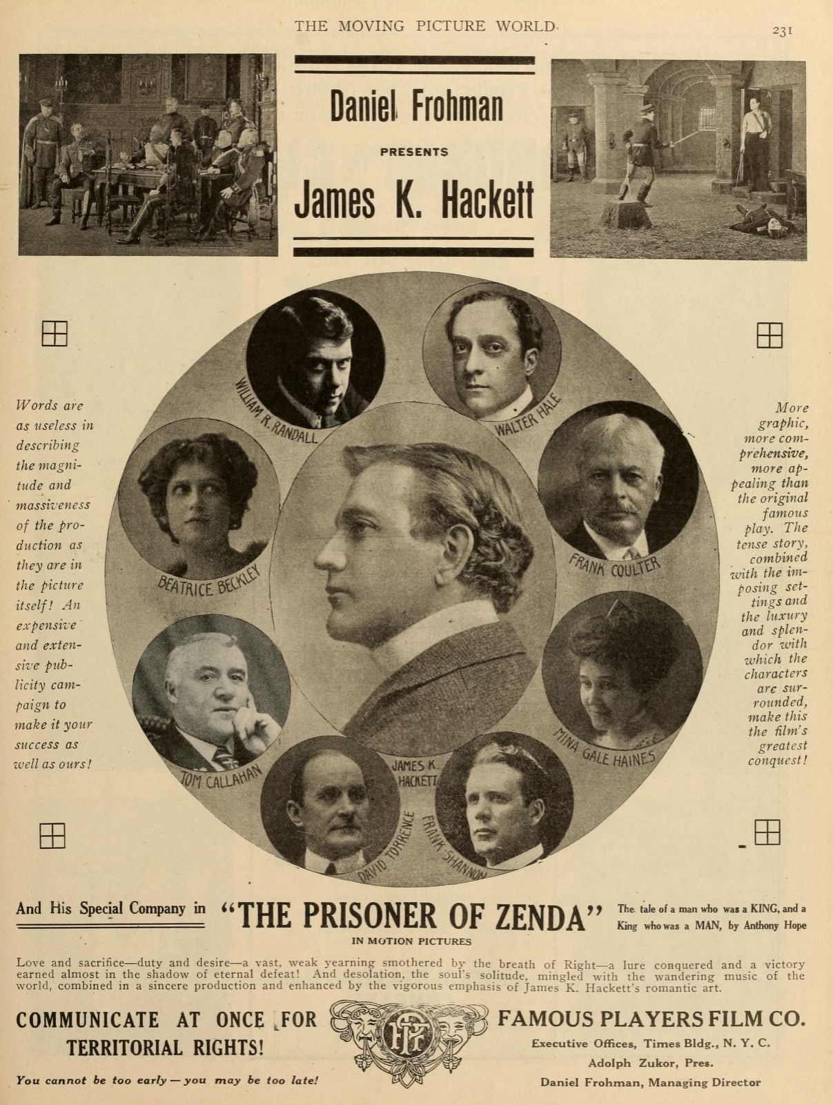 american silent movie The Prisoner of Zenda in The Moving Picture World Magazine, Jan.-Mar. 1913, p. 231 (cropped)